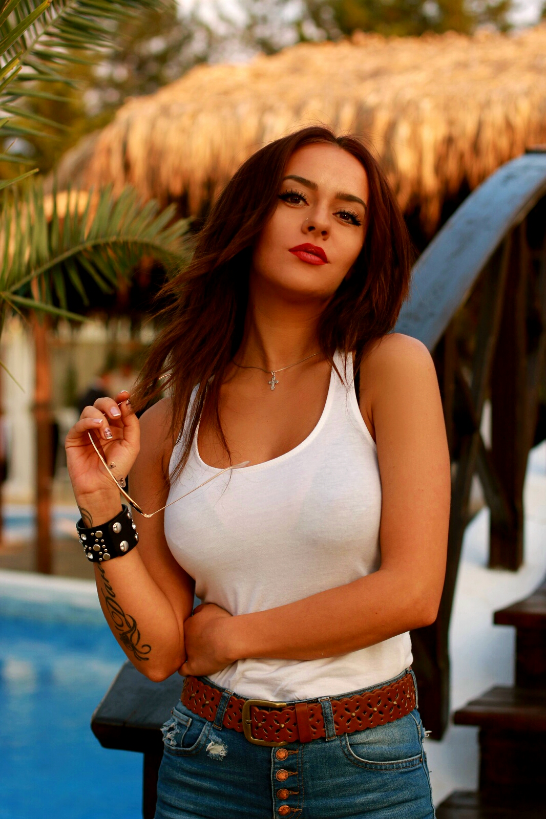 Sofi Bard Music Artist